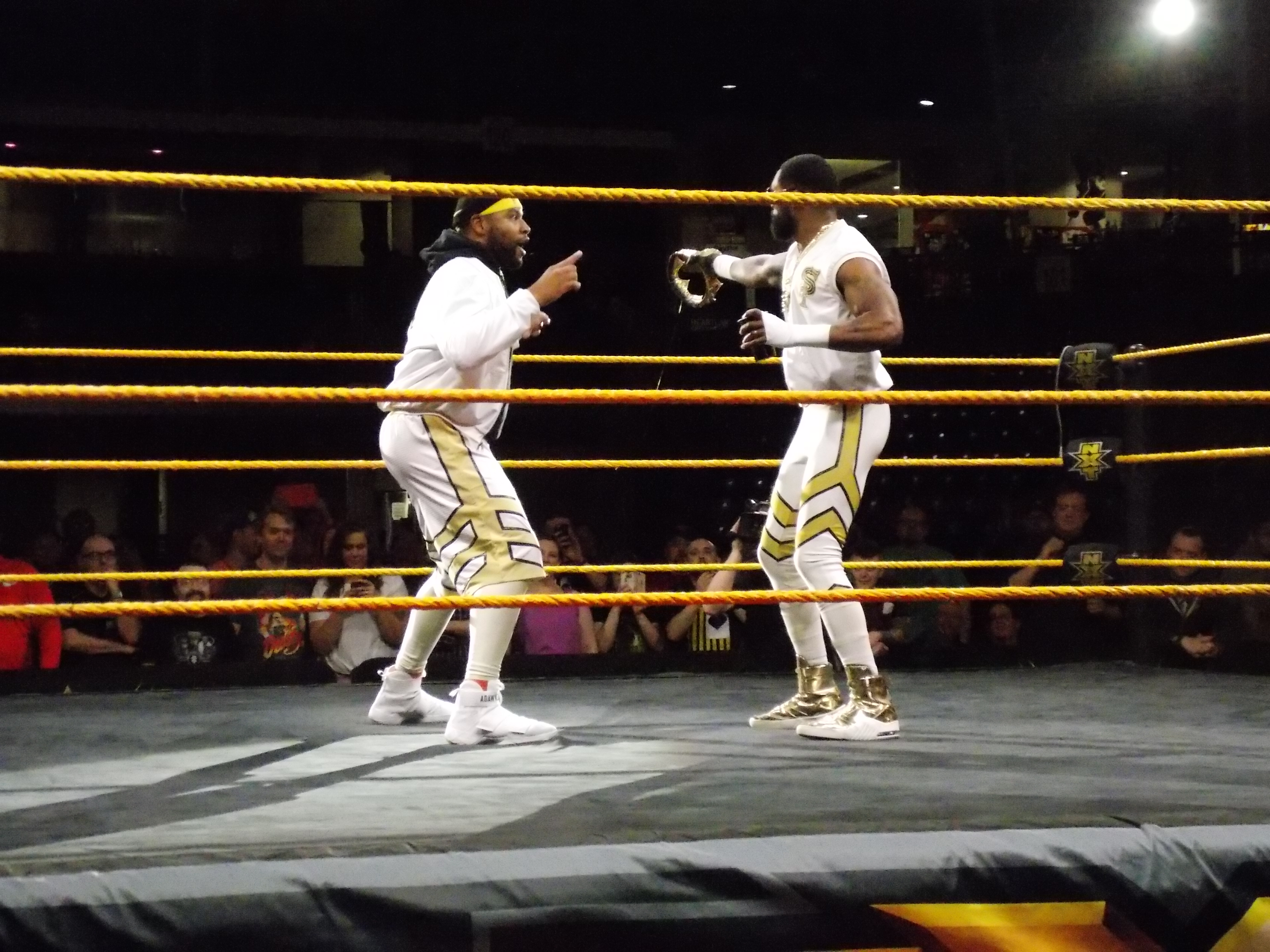 The Street Profits at an NXT Live Event in Omaha, Nebraska, USA on Thursday, April 25, 2019